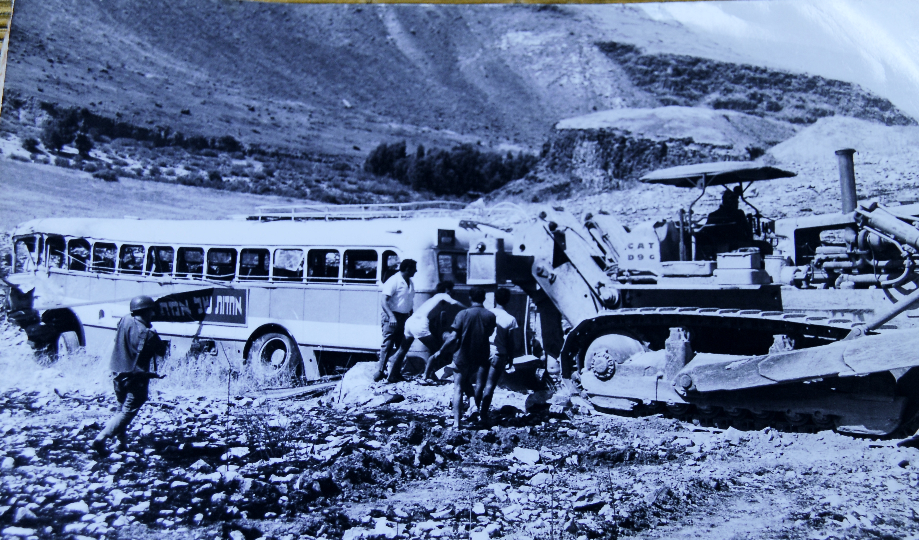 Israel Defense Forces